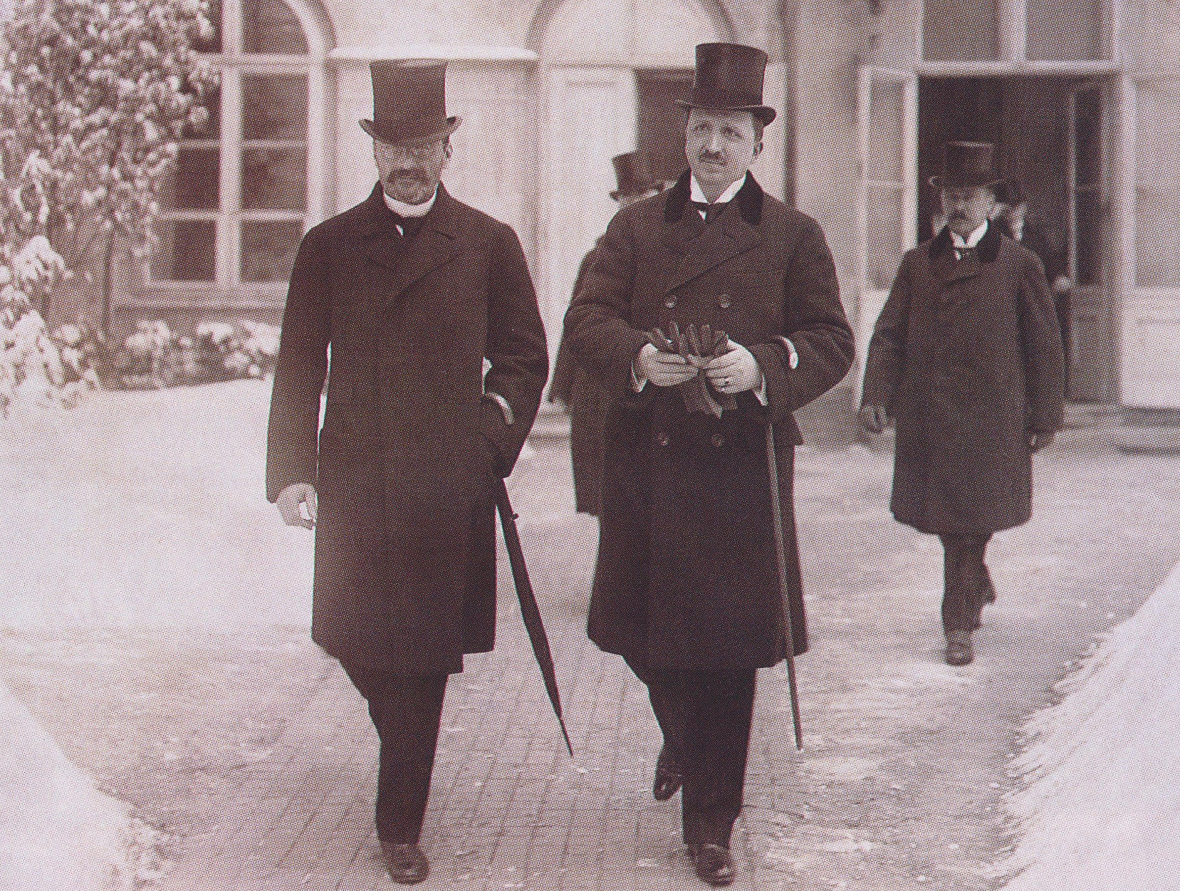 Prime Minister István Tisza and Croatian Ban Iván Skerlecz in Zagreb, February 1914